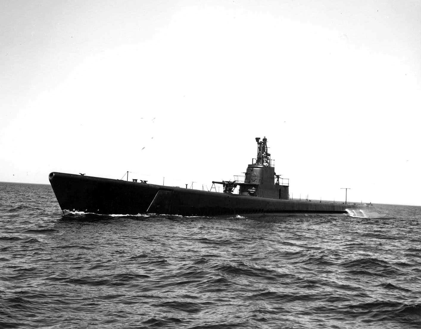 USS_Raton; Raton (SS-270) probably underway during trials in Lake Michigan, 1 July 1943. USN Photo courtesy of .